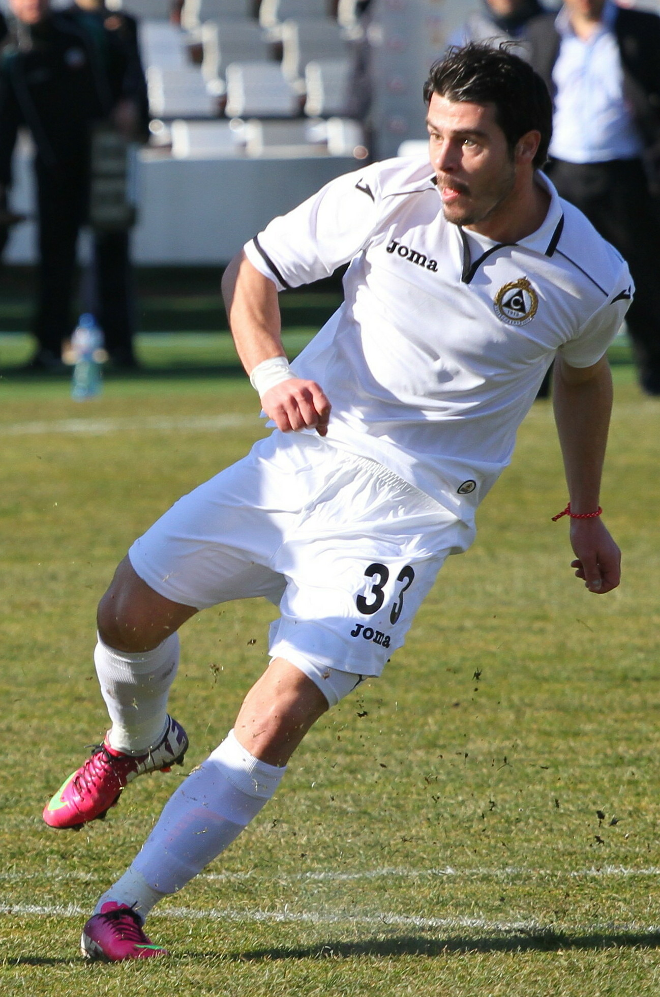 Galin Ivanov (Bulgarian: Галин Иванов; born 15 April 1988 in Kazanlak) - Bulgarian football player.